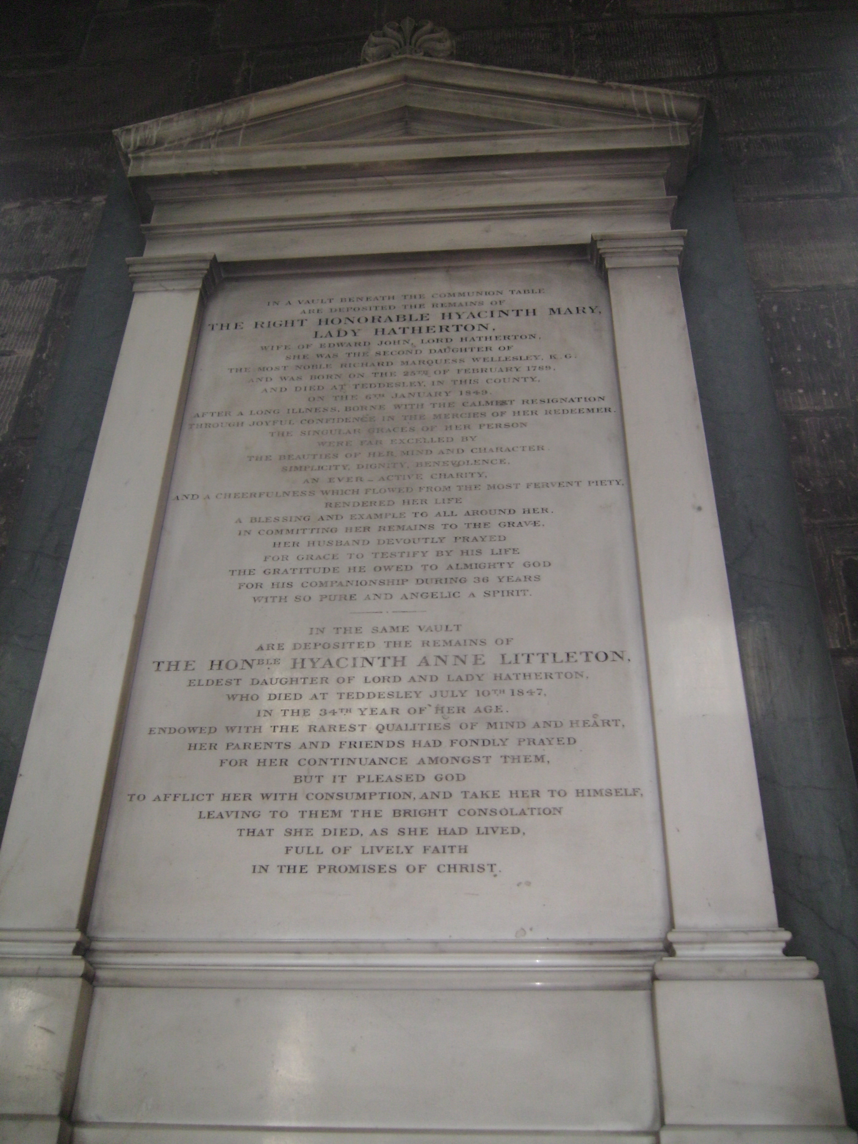 Penkridge, Staffordshire, St. Michael and All Angels Anglican parish church. Memorial to Hyacinthe Wellesley She was the daughter of Richard Wellesley, 1st Marquess Wellesley and Hyacinthe-Gabrielle Roland. She married 1st Baron Hatherton; the memorial includes their daughter, Hyacinthe Anne.